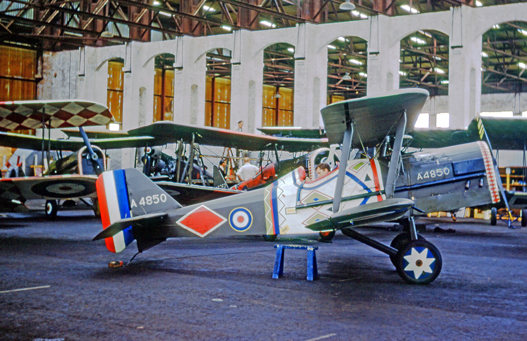 Slingsby T.56 SE.5A replica EI-ARI A4850 at Baldonnel Casement airfield in 1967